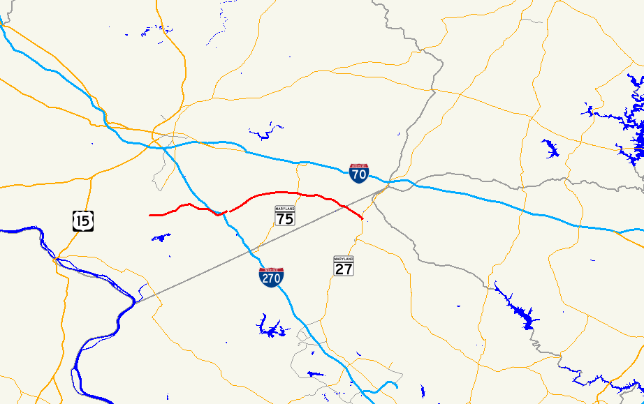 Map of Maryland Route 80